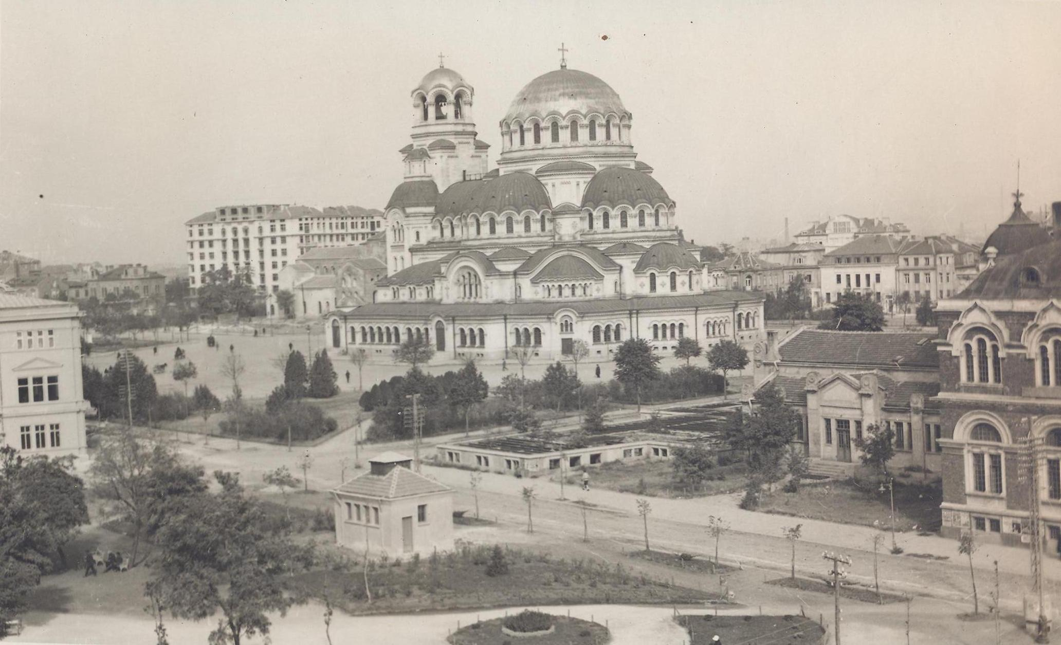 Alexander Nevsky Cathedral, Sofia.